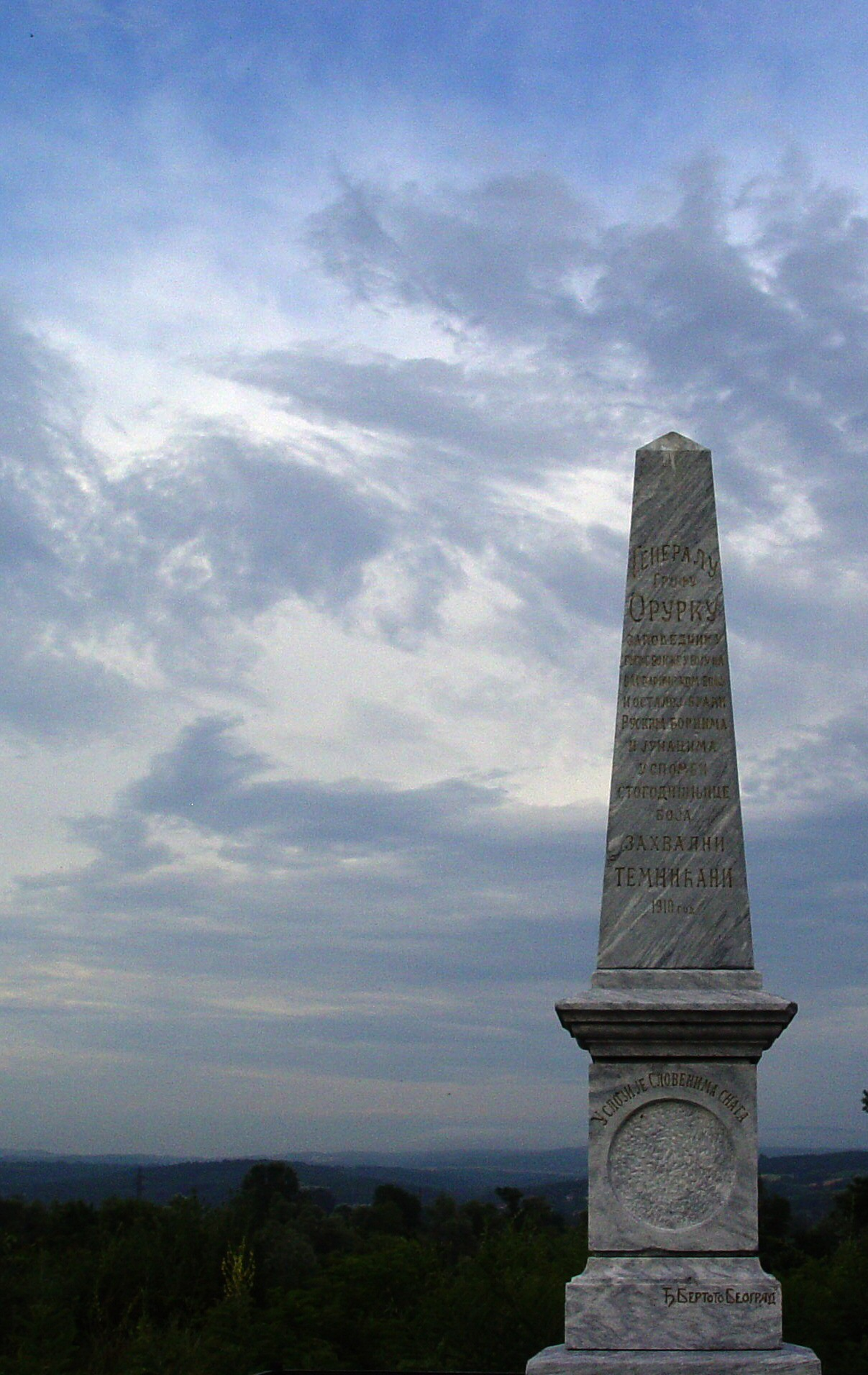 Photo of O'Rourke's momument in Varvarin, Serbia.